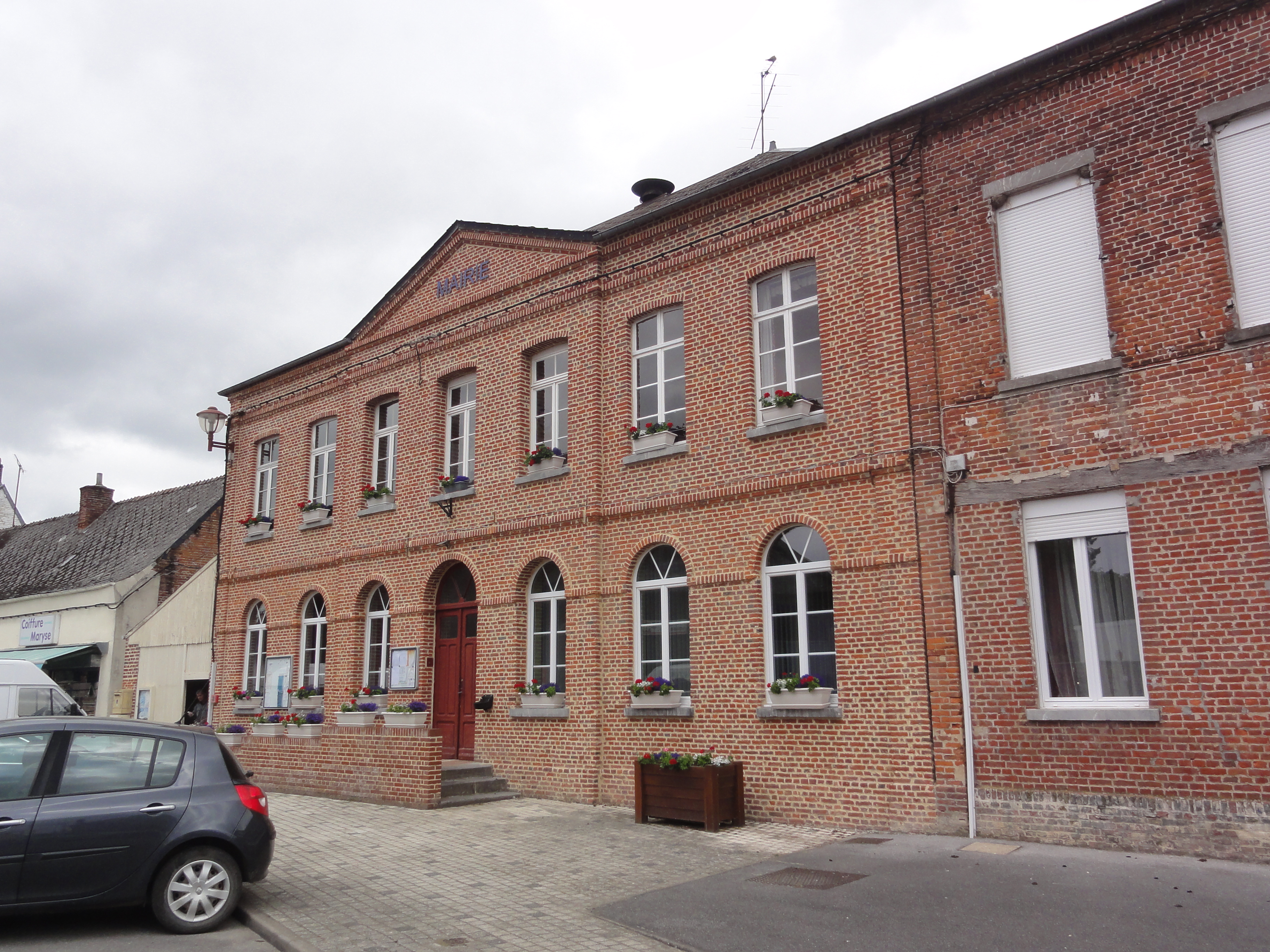 Town hall of Marly-Gomont, a comune in Aisne, France.